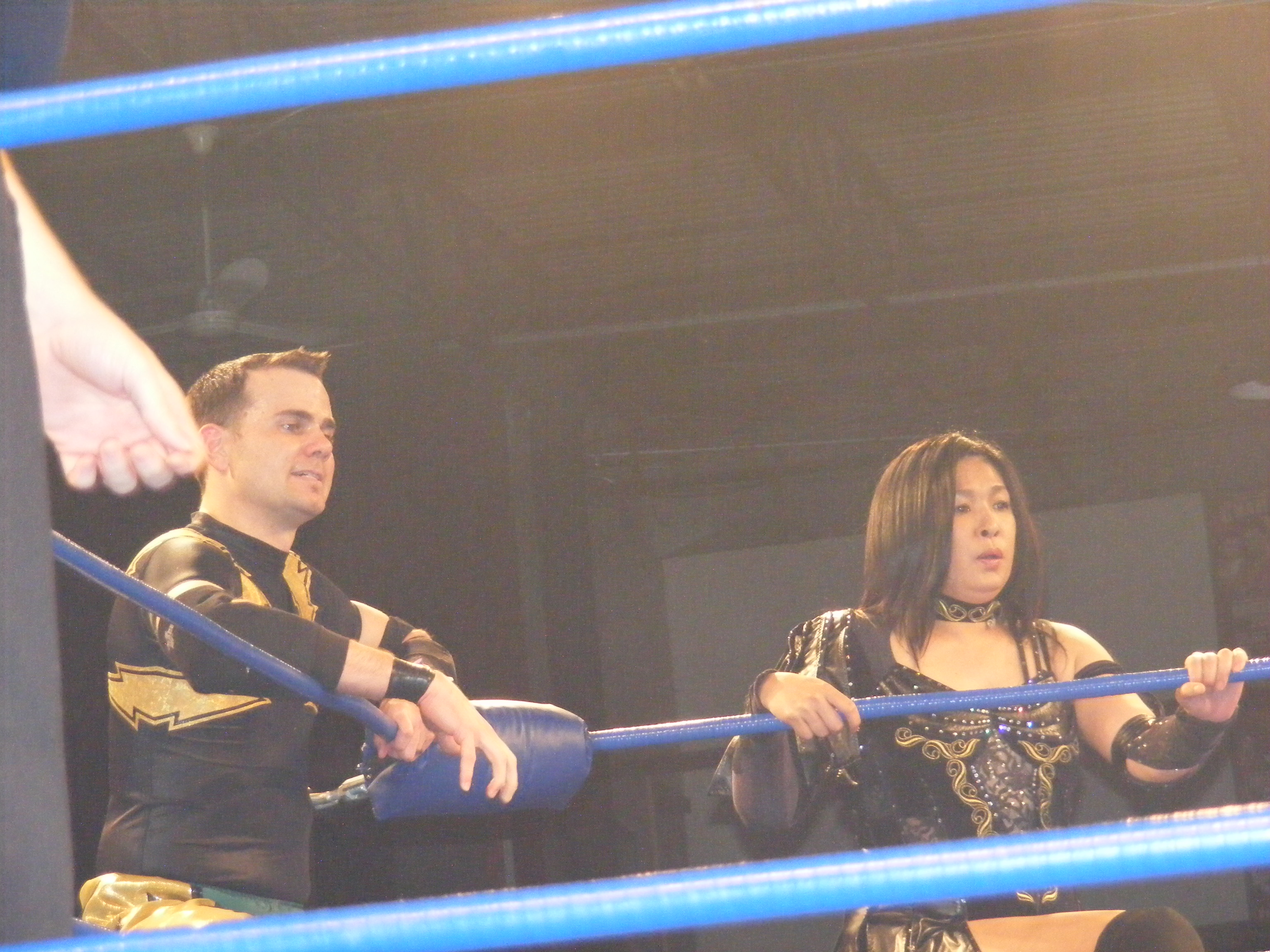 Professional wrestlers Mike Quackenbush and Manami Toyota in April 2011.